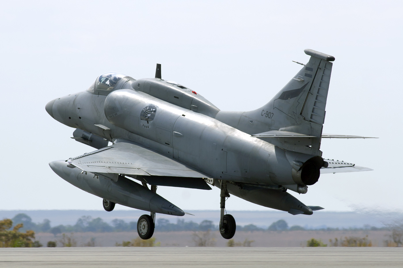 The A-4AR Fightinghawk is an upgrade version of the A-4M Skyhawk. The aircraft are called Fightinghawk because the have avionics of the F-16 Fighting Falcon. Three were at Anápolis (Brazil) for the exercise Cruzex.